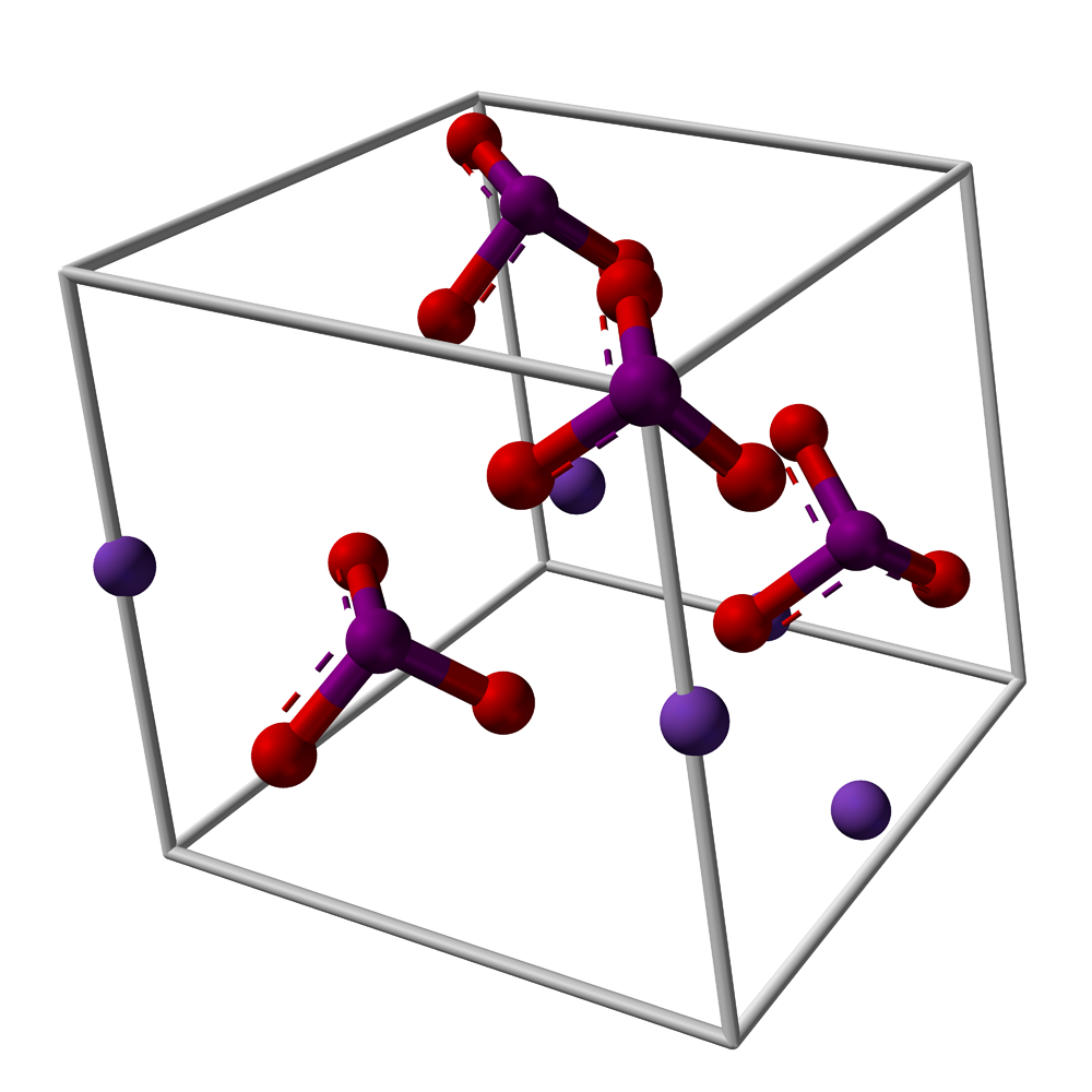 Ball-and-stick model of the unit cell of potassium iodate, KIO3. X-ray crystallographic data from Acta Cryst. (1985). C41, 1388-1391.